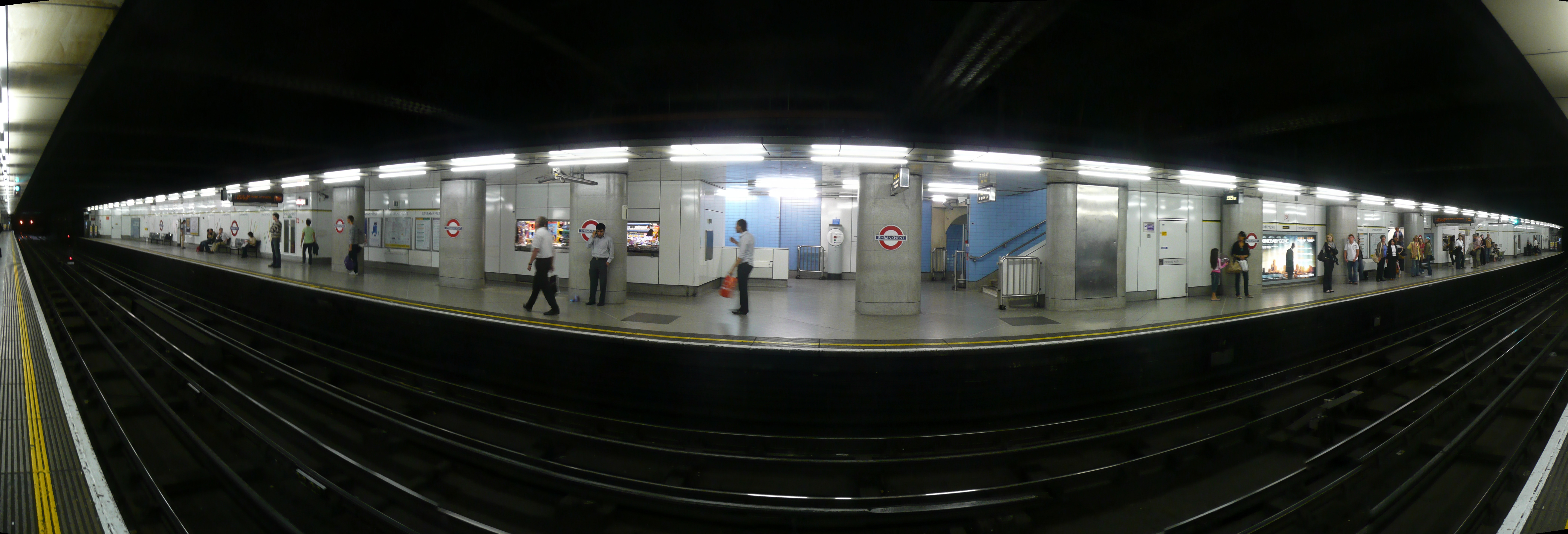 Embankment, London Underground.